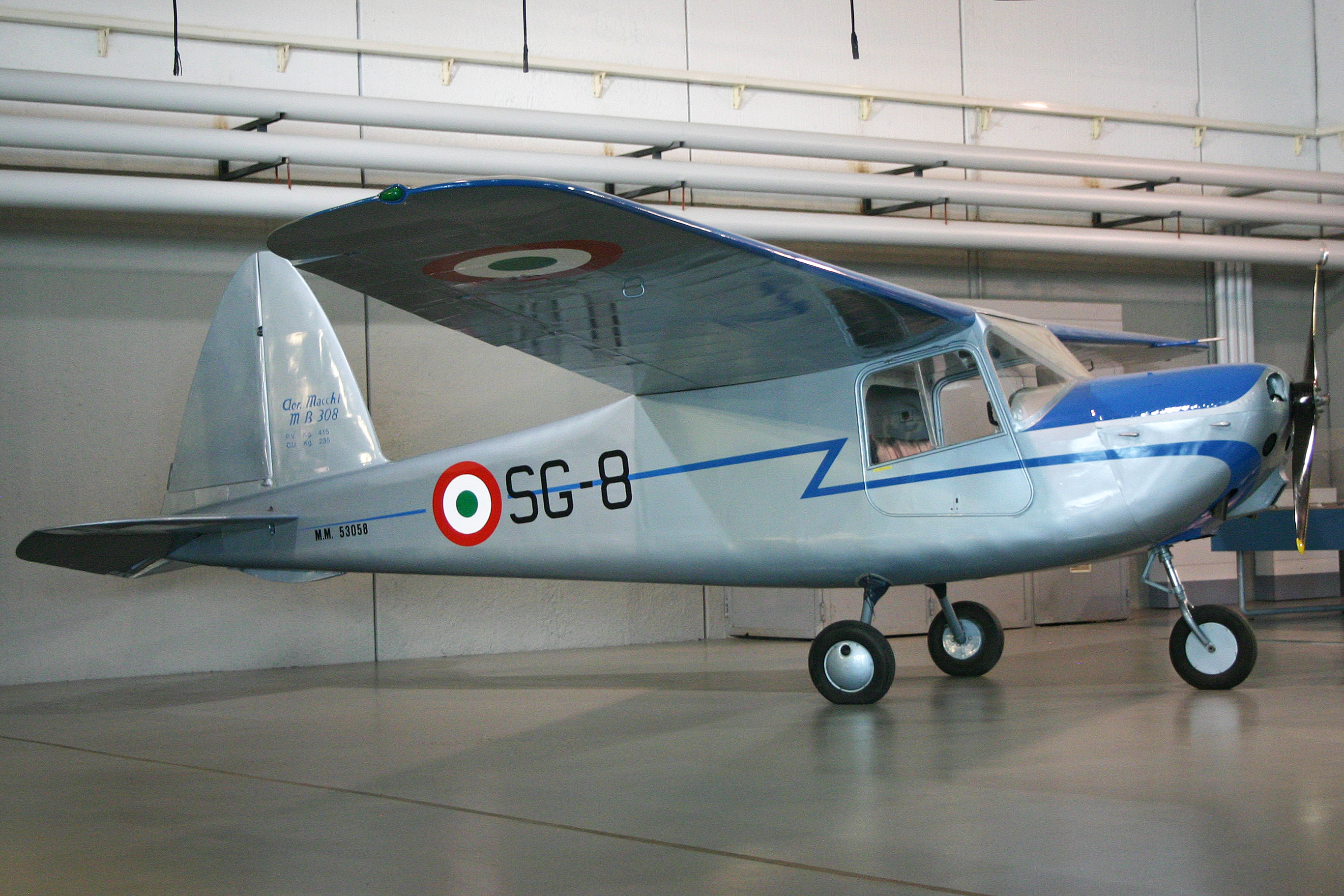 Displayed under the balcony of Hangar SKEMA. Previously I-GORI. msn 5878, l/n 105